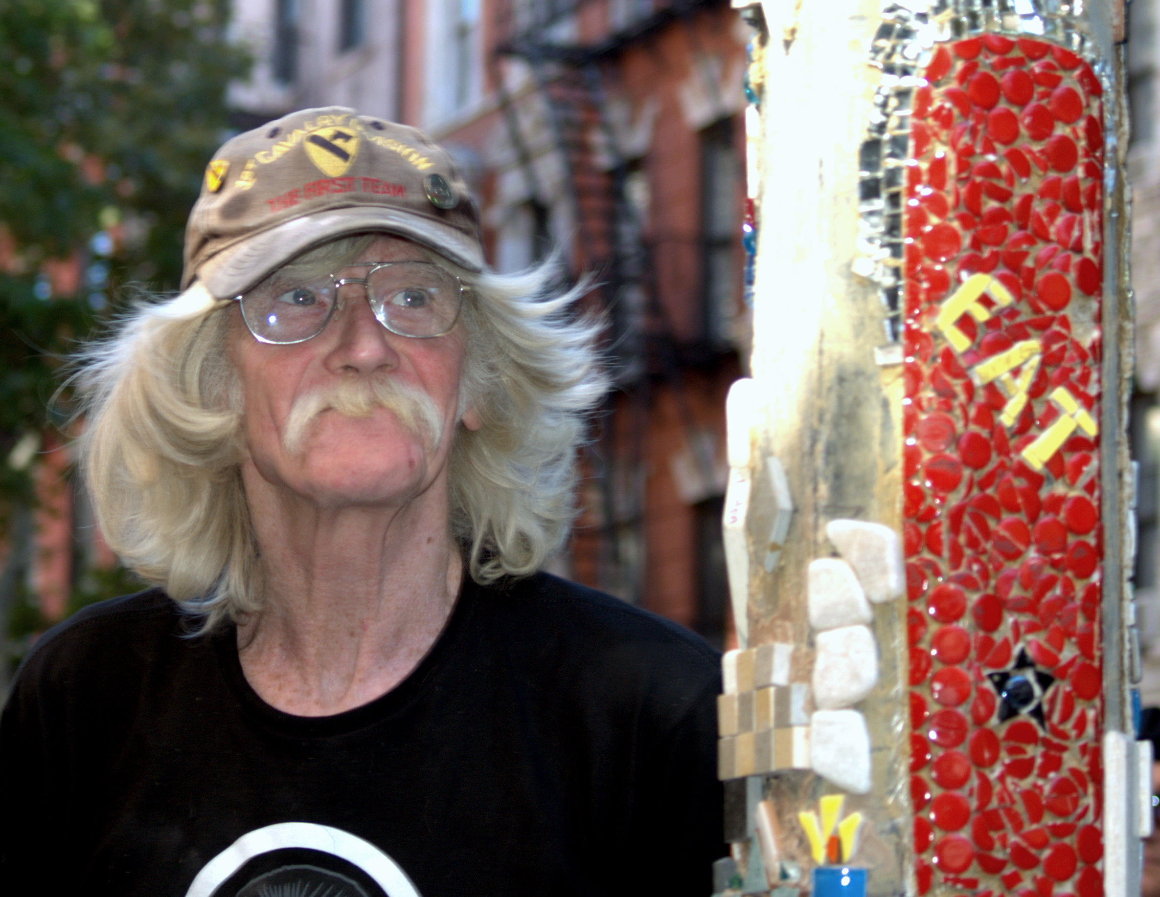 East Village public artist Jim Power, better known as "Mosaic Man", on Saint Mark's Place during the 2009 block party. Photographer's blog post about the photo and event.